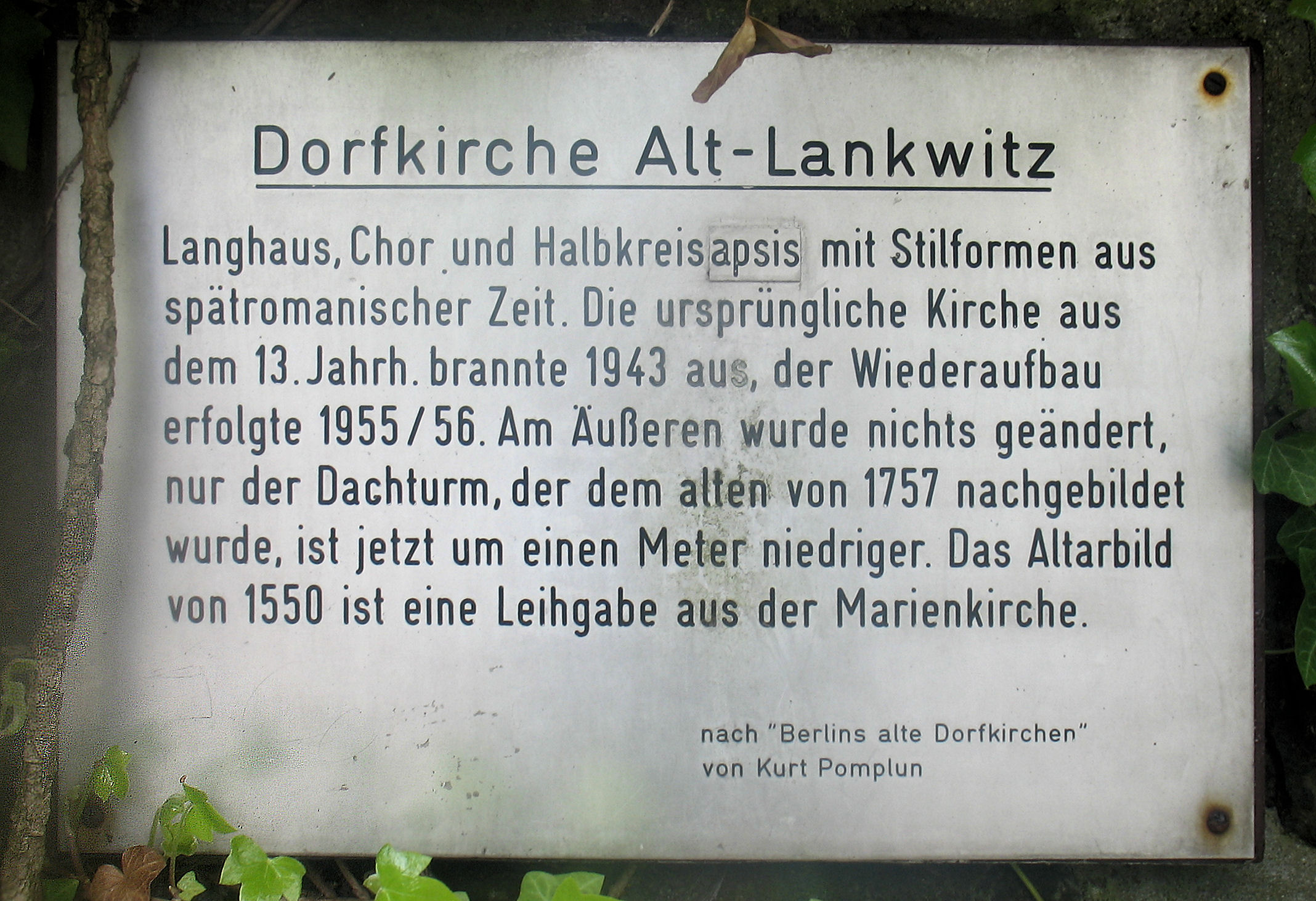 Memorial plaque, Dorfkirche Alt-Lankwitz, Alt-Lankwitz ggü 19, Berlin-Lankwitz, Germany